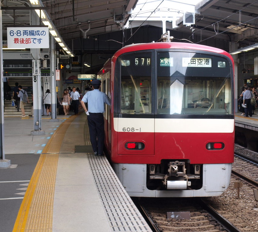 An Airport Limited Express train with Keikyu type 600 to Narita Airport stopping at Shinagawa